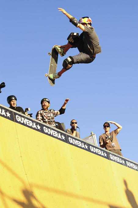 Big Day Out Festival 2012.